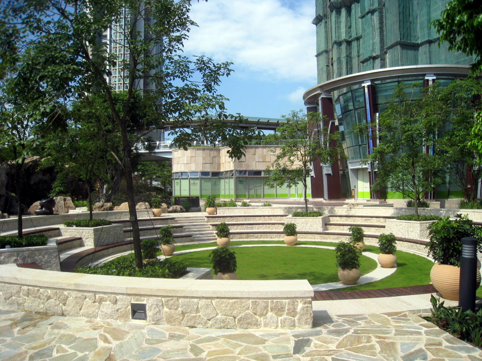 LOHAS Park The Park Amphitheatre